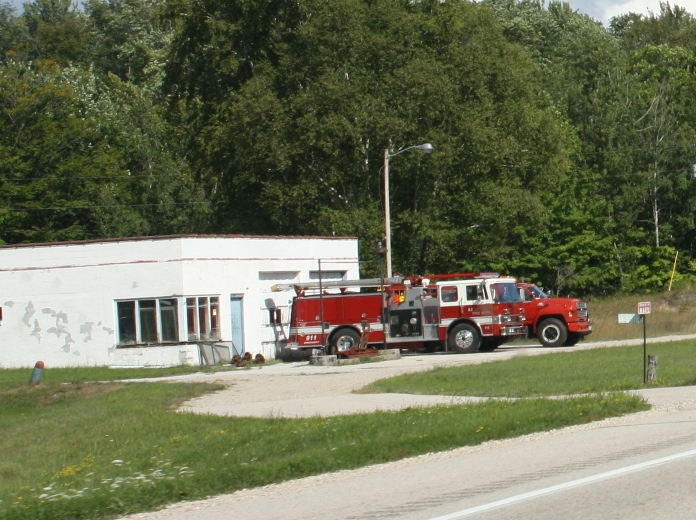 The Hendricks Township, Michigan fire station in Epoufette, Michigan along U.S. Route 2.